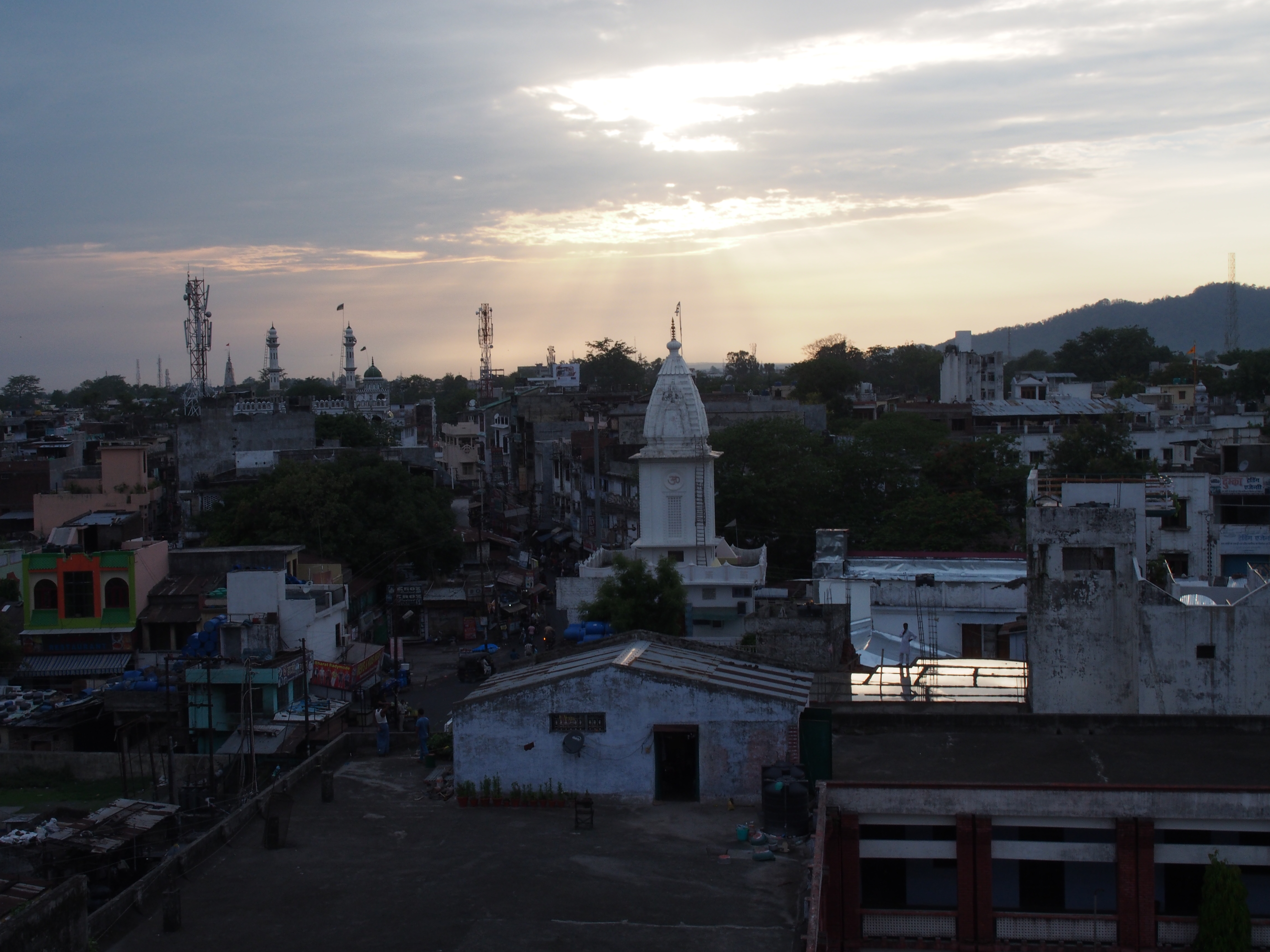 Skyline of Haldwani